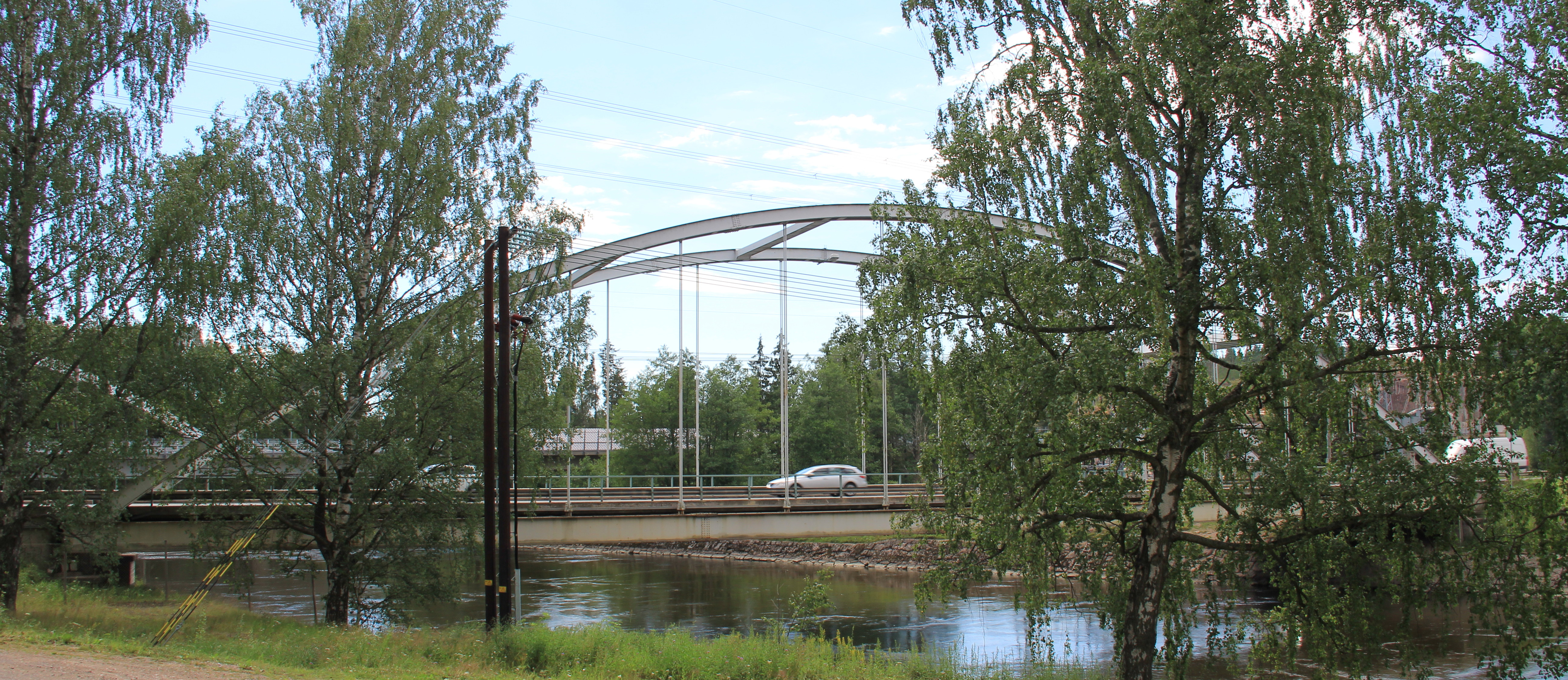 Ahvenkoski hydropower station tailrace canal bridge, European route 18, Pyhtää, Finland. - Tied-arch bridge, completed in 1965.